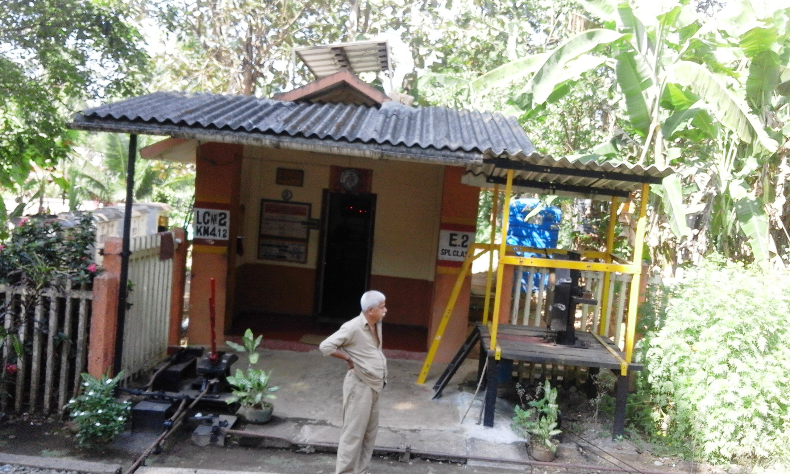 Shornur, Kerala, India.